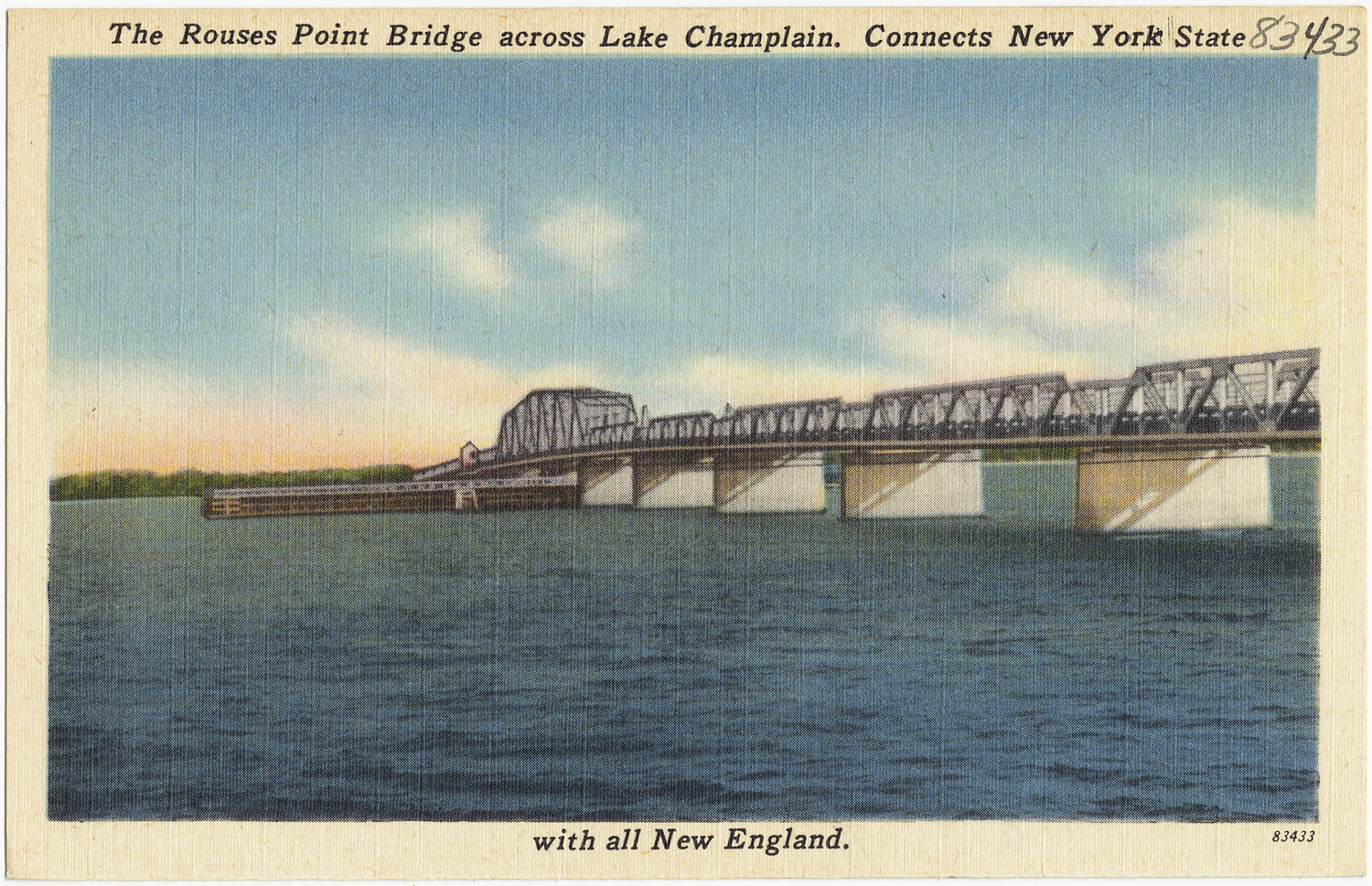 Postcard showing the original 1930s Rouses Point bridge